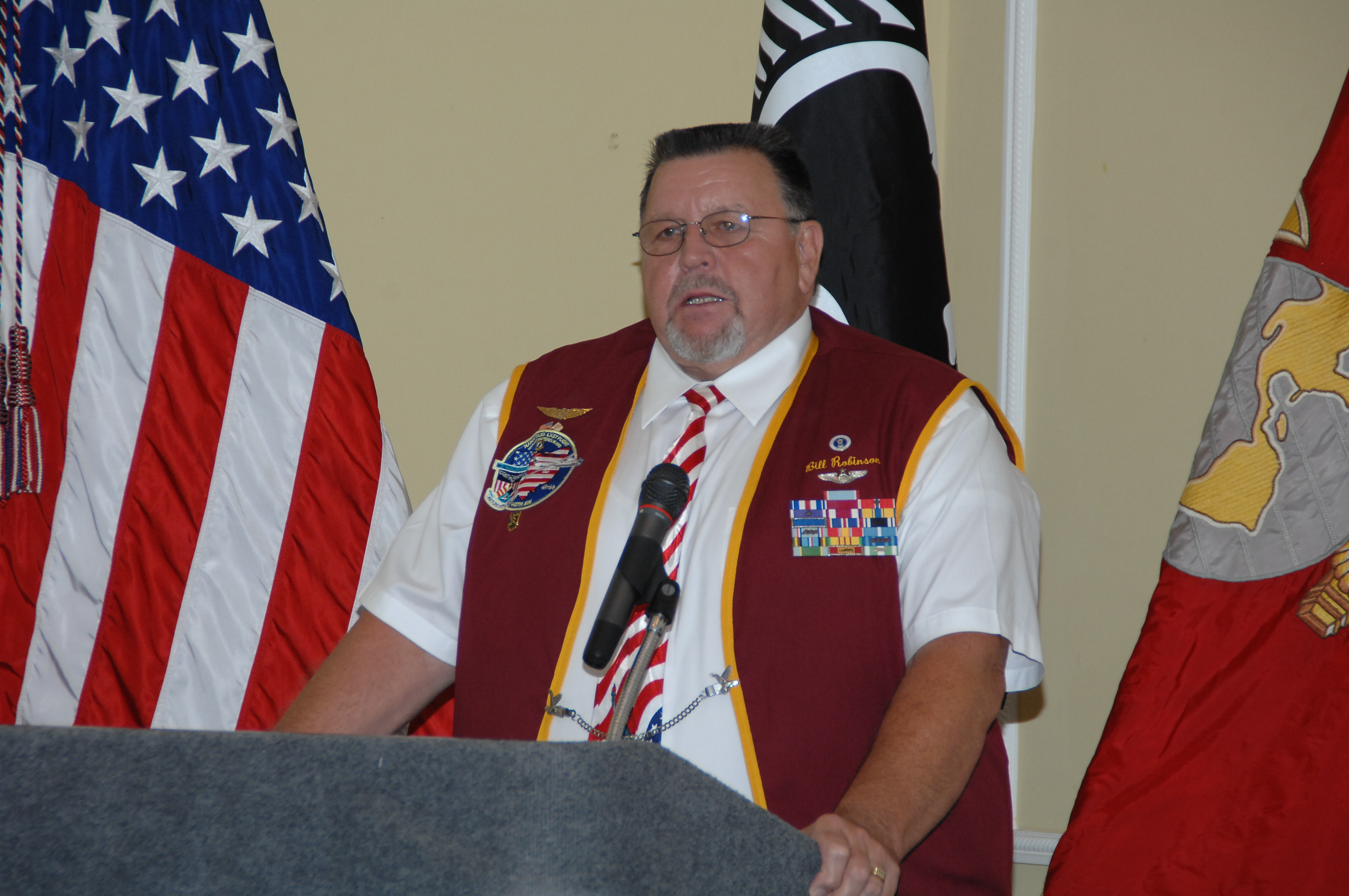 William Andrew Robinson, the longest held prisoner of war enlisted service member in U.S. history. He was also featured in a North Vietnamese propaganda photograph after he was captured.